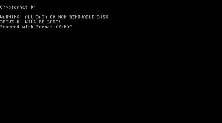 Screenshot of format program in MS-DOS